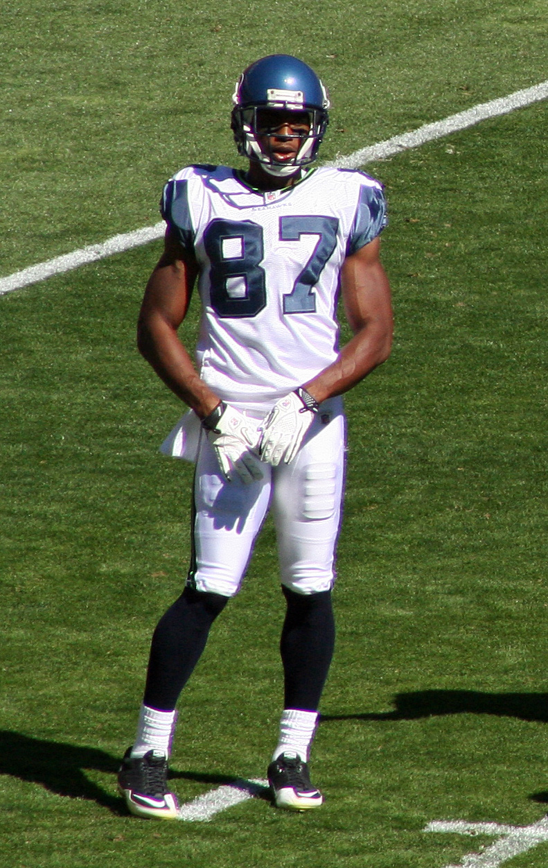 Benjamin Obomanu, a player on the Seattle Seahawks American football team.